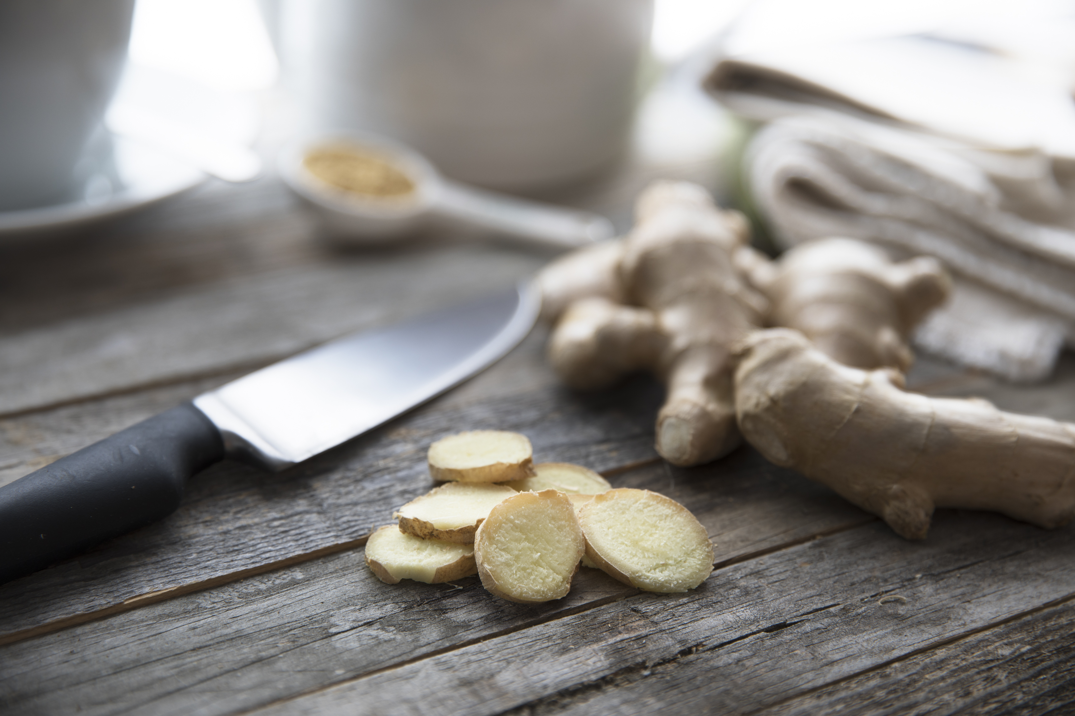 This photo is available under Creative Commons. If you use this image, please give credit to with a clickable link.